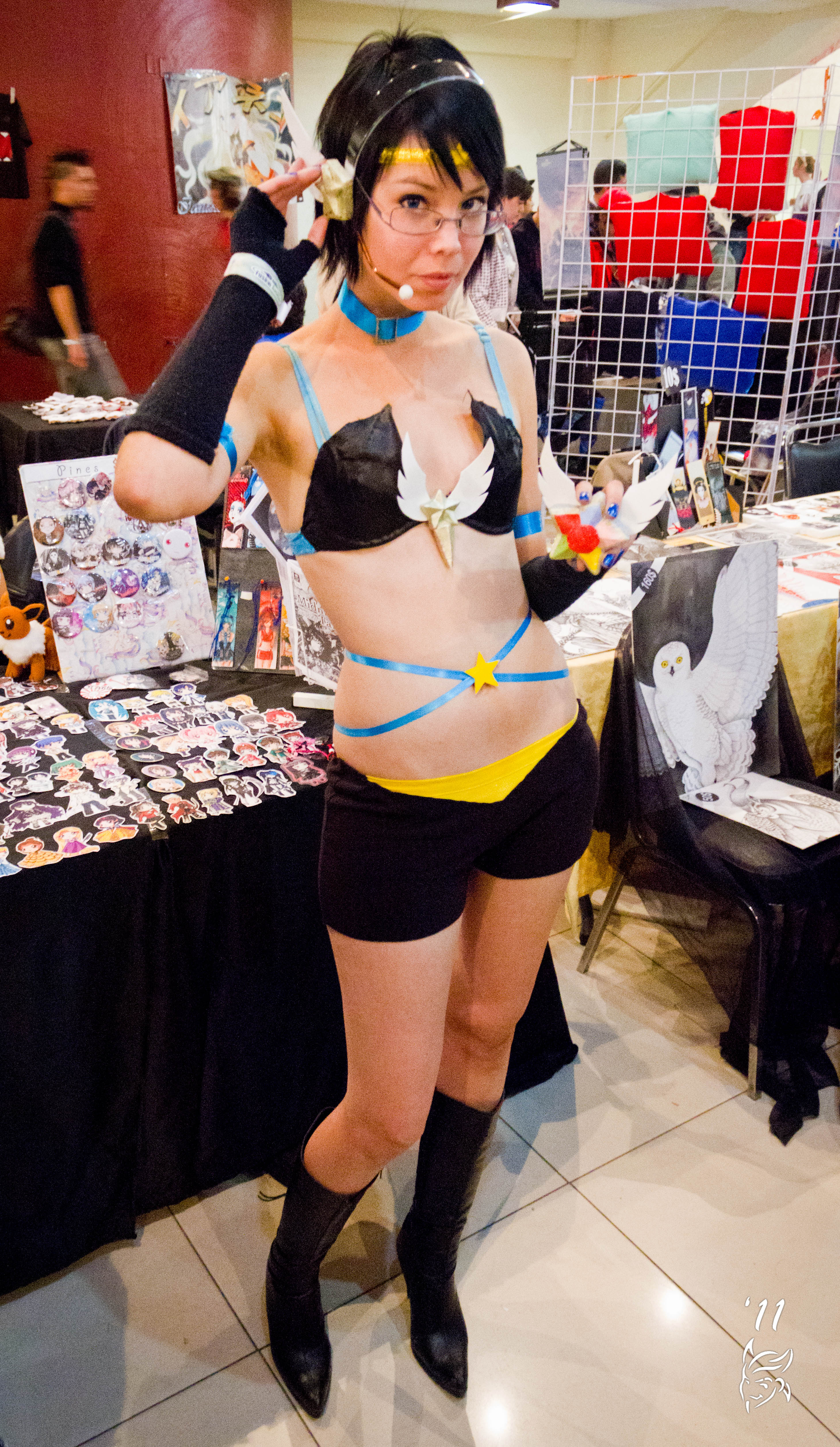 Cosplay of Sailor Starlight